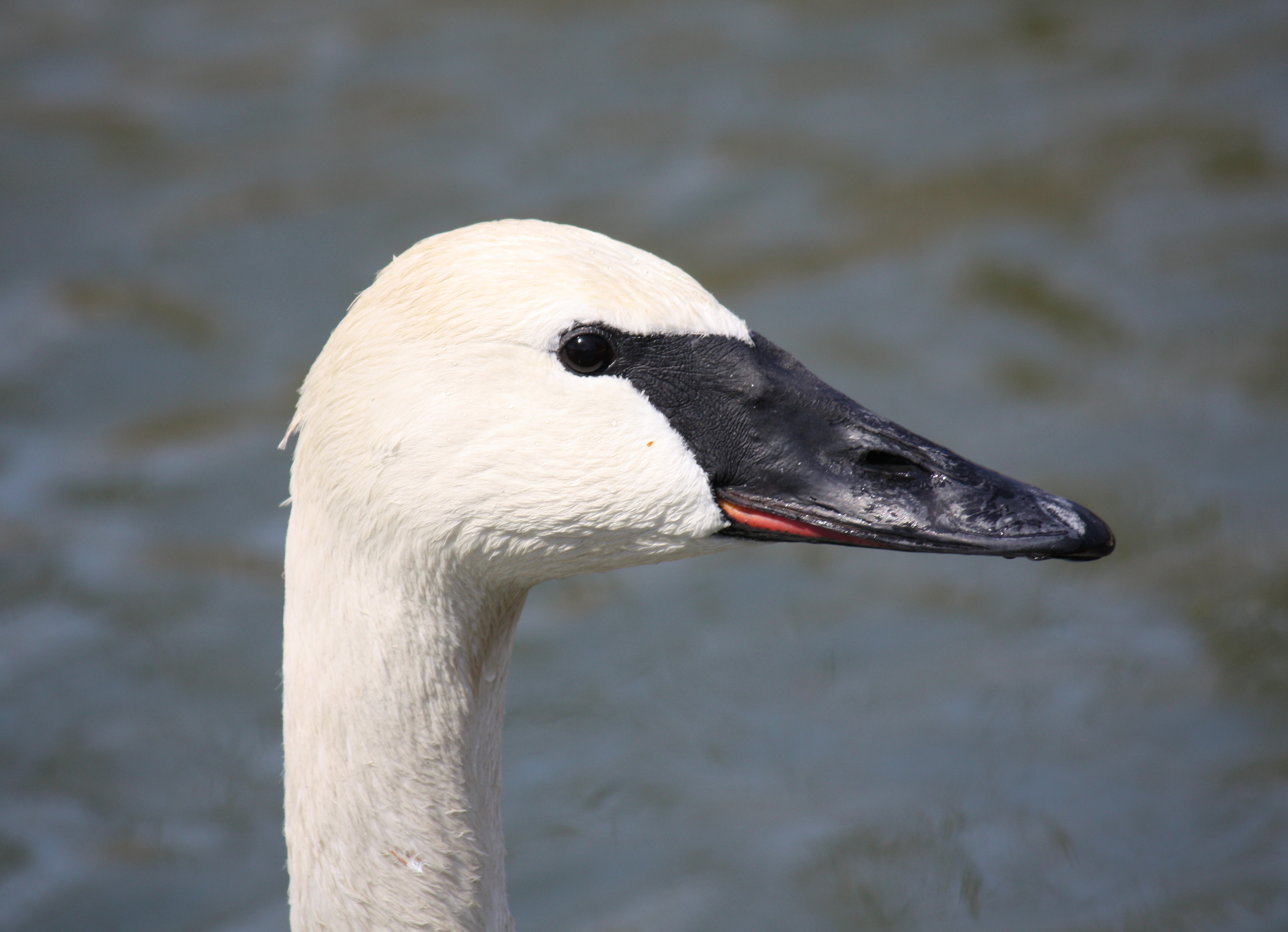 Trumpeter Swan (Cygnus buccinator) at the Louisville Zoo